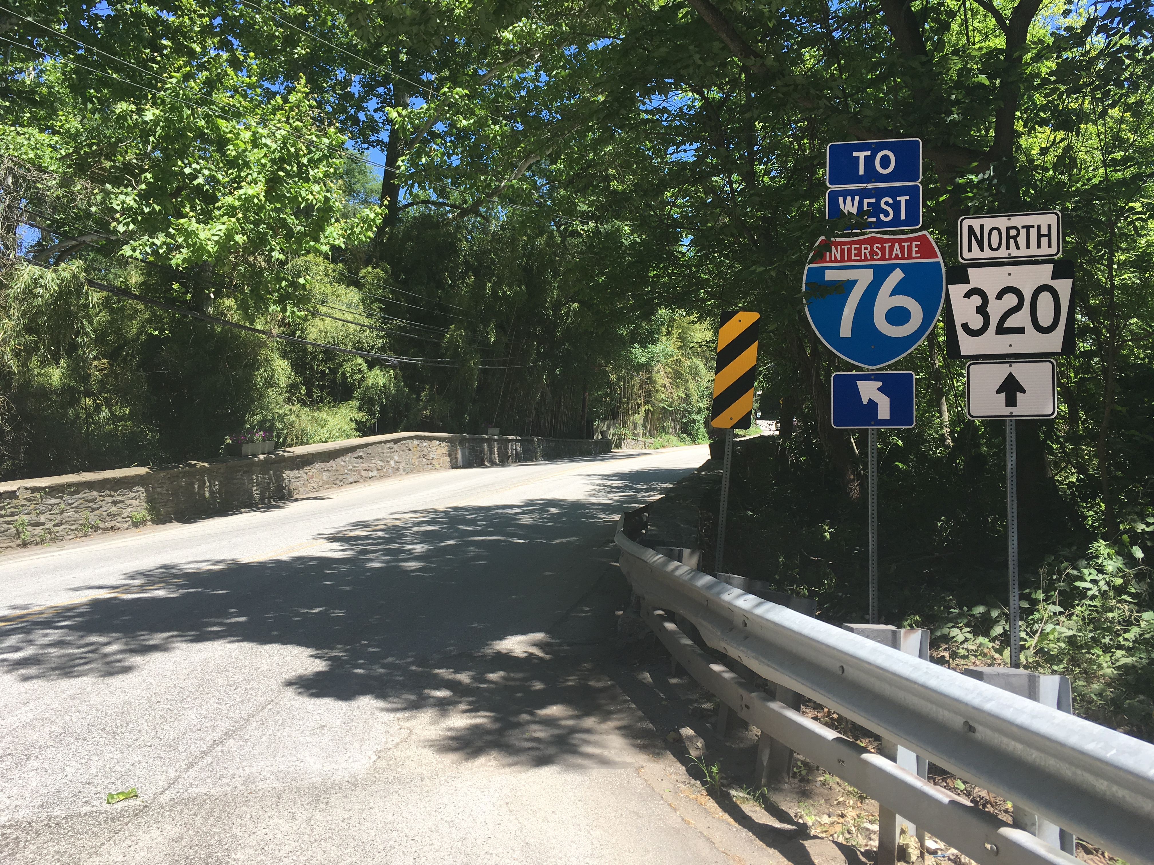 Northbound Pennsylvania Route 320 (Trinity Lane) past the intersection with Balligomingo Road north of the interchange with Interstate 76 (Schuylkill Expressway) in Gulph Mills, Pennsylvania